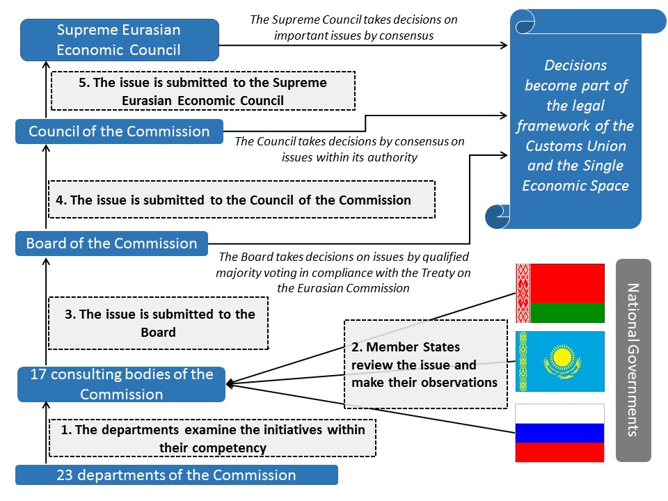 This chart made in word, shows the decision making process of the eurasian trading bloc.